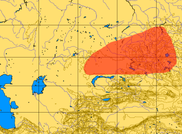 from the sources I came up with from a websearch, I'd say the actual extension of the culture looks about thusly. The exact delineation is probably not even known, I suspect. They can easily be the Proto-Tocharians, situation and timeframe fit perfectly (loss of contact with Yamna from about 3500). dab (ᛏ) 14:45, 14 August 2005 (UTC).